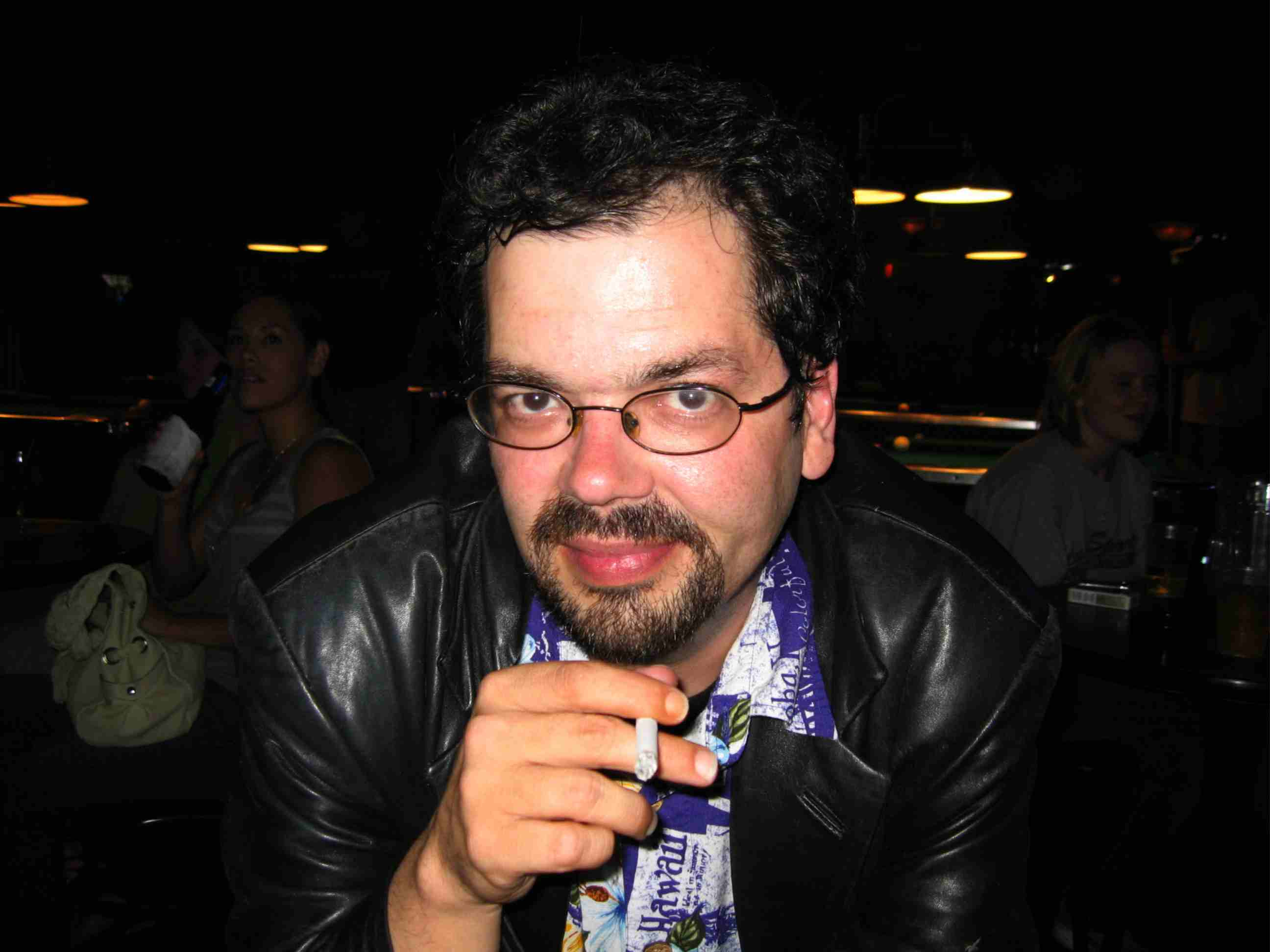 Picture of Christopher Ayres